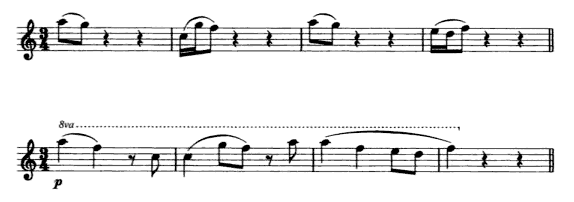 Passage from third movement of the American quartet by Dvořák, quoting the song of the scarlet tanager